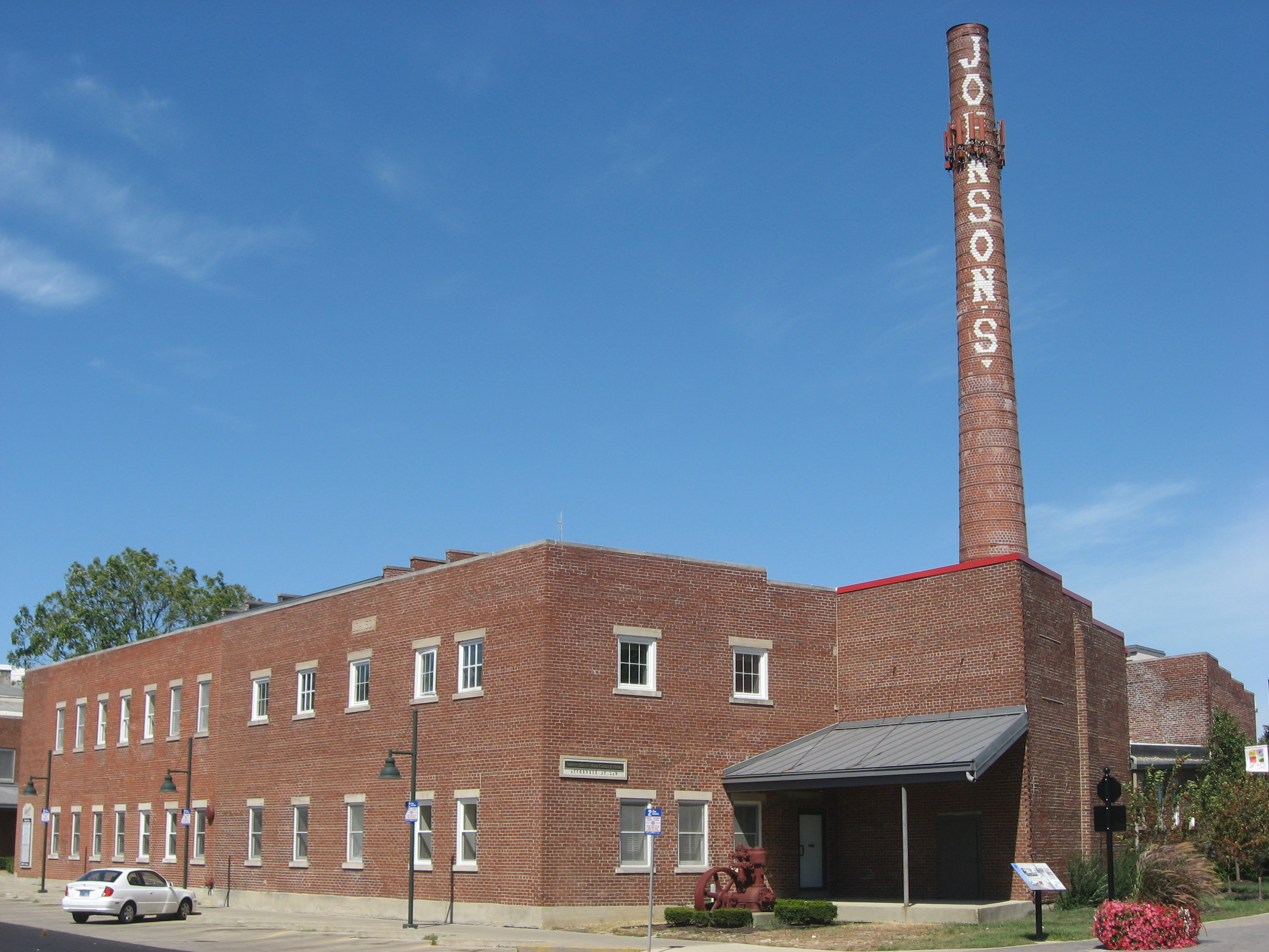 Front of Johnson's Creamery, located at 400 W. Seventh Street in Bloomington, Indiana, United States. Built in 1914 and since converted into a shopping center, it is listed on the National Register of Historic Places, and it is part of a Register-listed historic district, the Bloomington West Side Historic District.